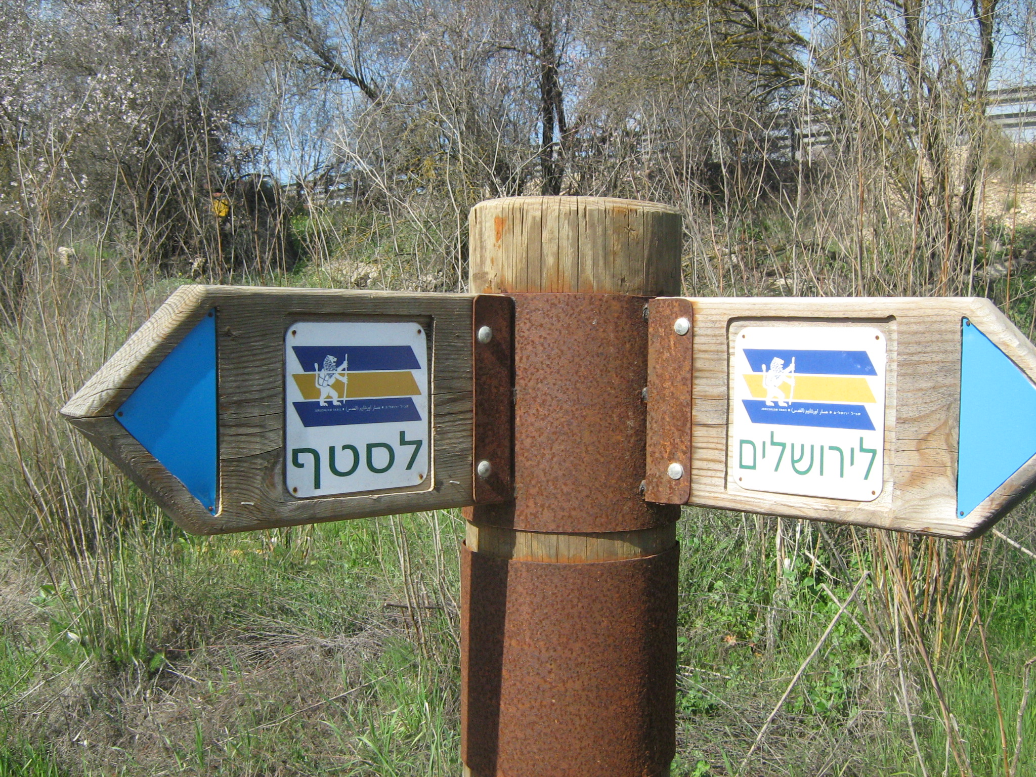 sign Sataf and Jerusalem